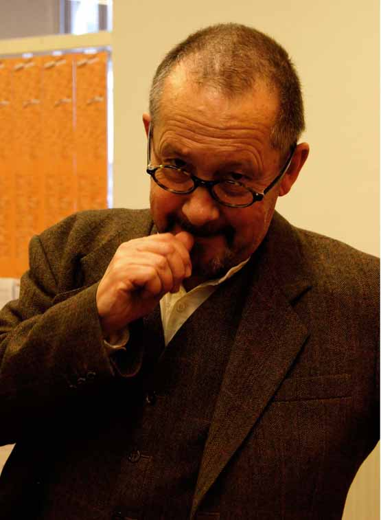 British illustrator Davig Hughes had presented his cartoon 'Walking.the.Dog' on occasion of "Erich-Fried-Tage 2011", a short while before; it was a SPLENDID pleasure to meet him ~2 days later.